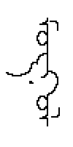 "Mongol" written in Vagindra Script